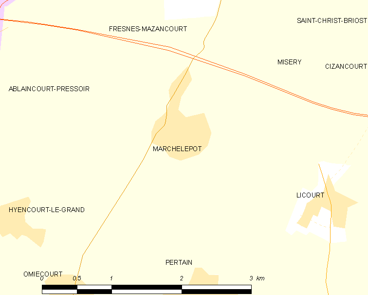 Map of French municipality Marchélepot